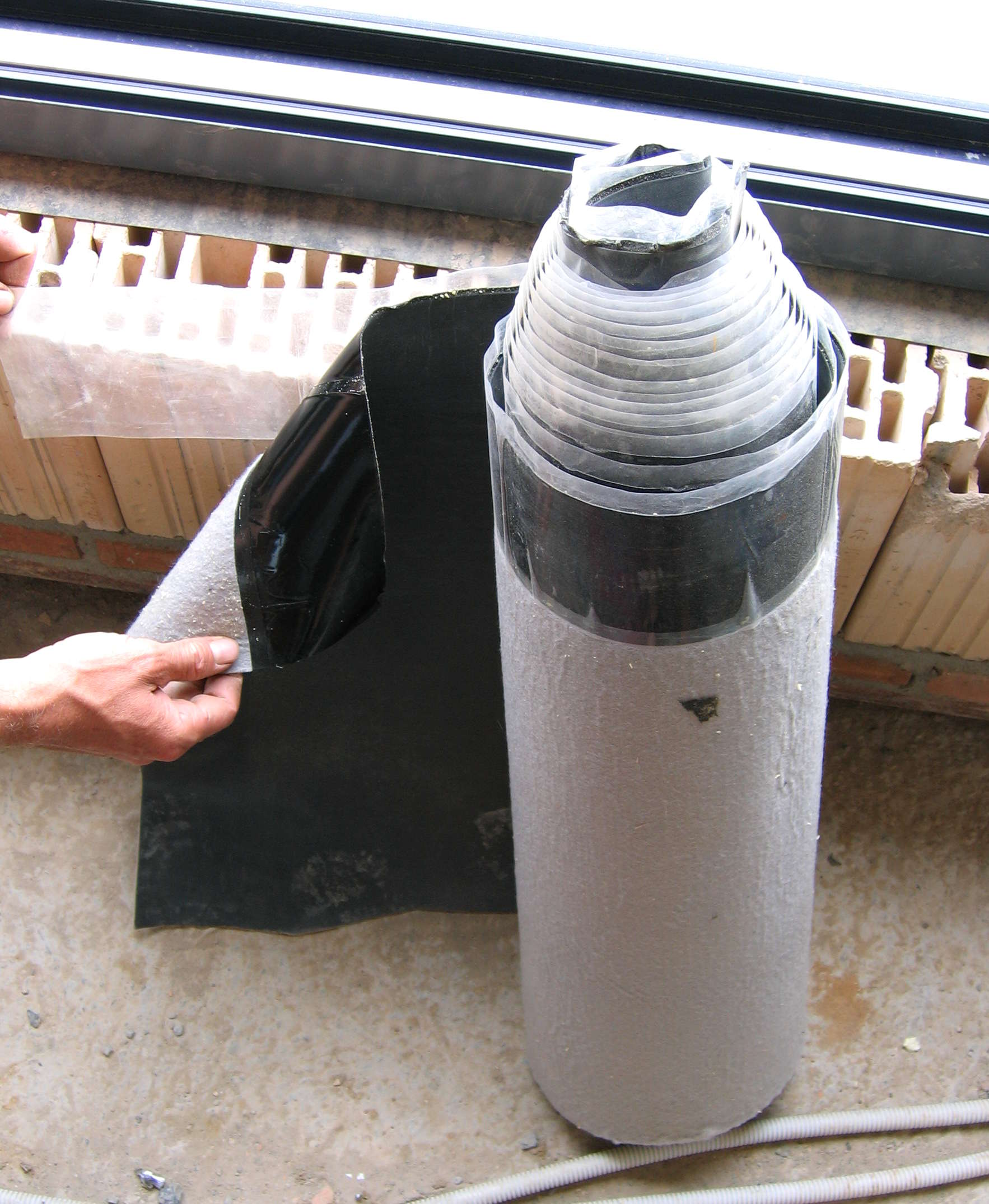 A picture of a roll of Carlisle Co.-made EPDM-foil. This foil (used for waterproofing roofs) does not pollute any rainwater running off the foil (unlike other contemporary waterproof foils as bitumen). Having the runoff rainwater unpolluted allows the rainwater to be used by the house owners for their sanitary requirements (which is being done by the owners here). This is known as rainwater harvesting. Note the front and back, which are noticeably different, as well as the part of the foil which is sticky (to attach it unto the roof).